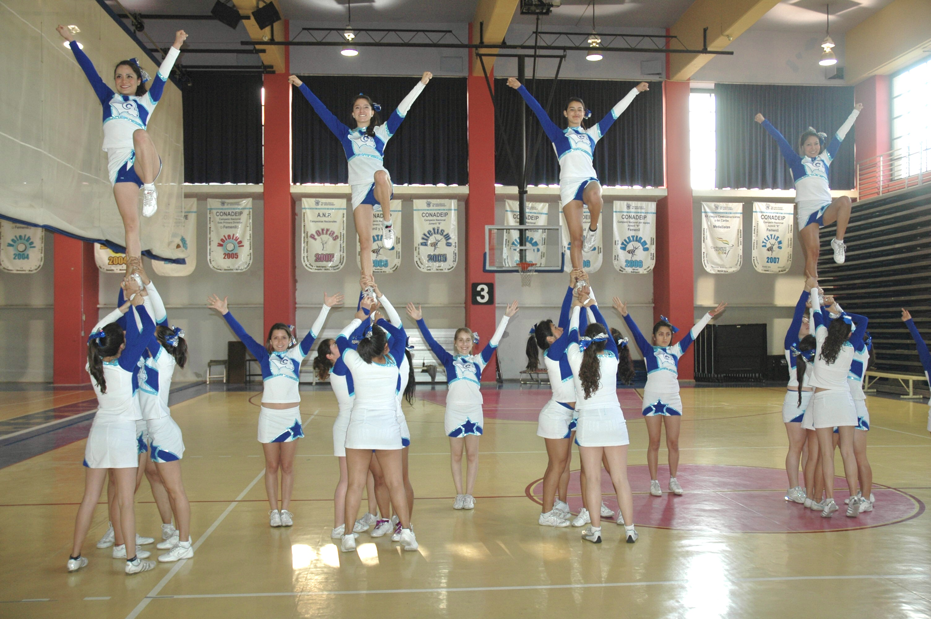 Cheerleaders from ITESM Campus Ciudad de México